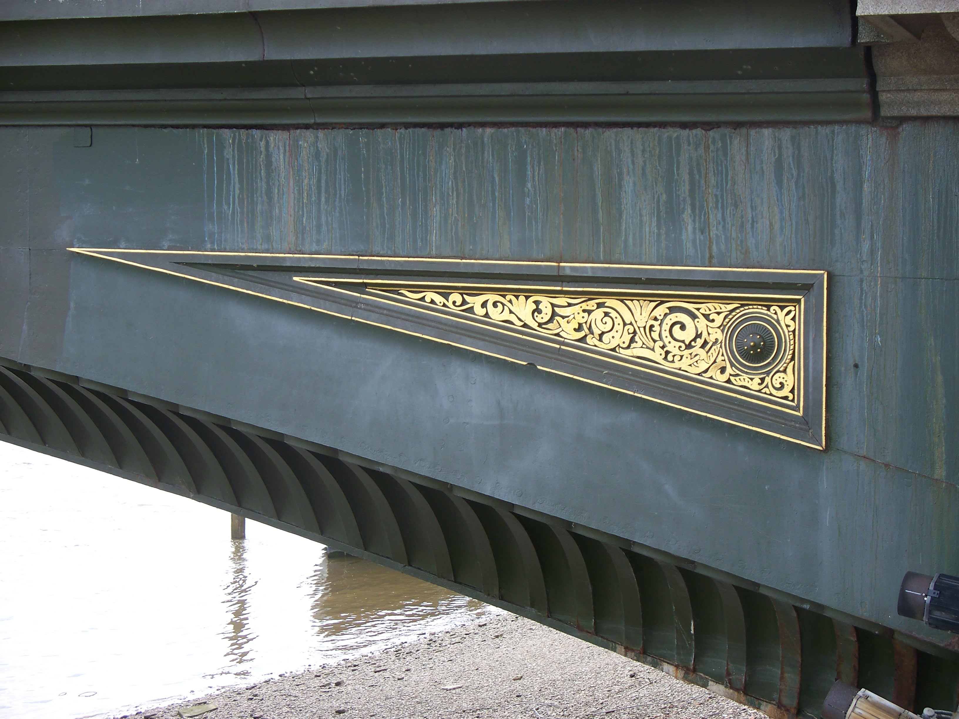 Battersea Bridge, London. Photograph taken in a public location in the UK of a building on permanent public display, and exempt from copyright under Section 62 of the Copyright Designs & Patents Act 1988 ("it is not an infringement of copyright to film, photograph, broadcast or make a graphic image of a building, sculpture, models for buildings or work of artistic craftsmanship if that work is permanently situated in a public place or in premises open to the public")